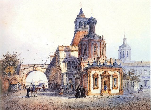 I.VeisTitle